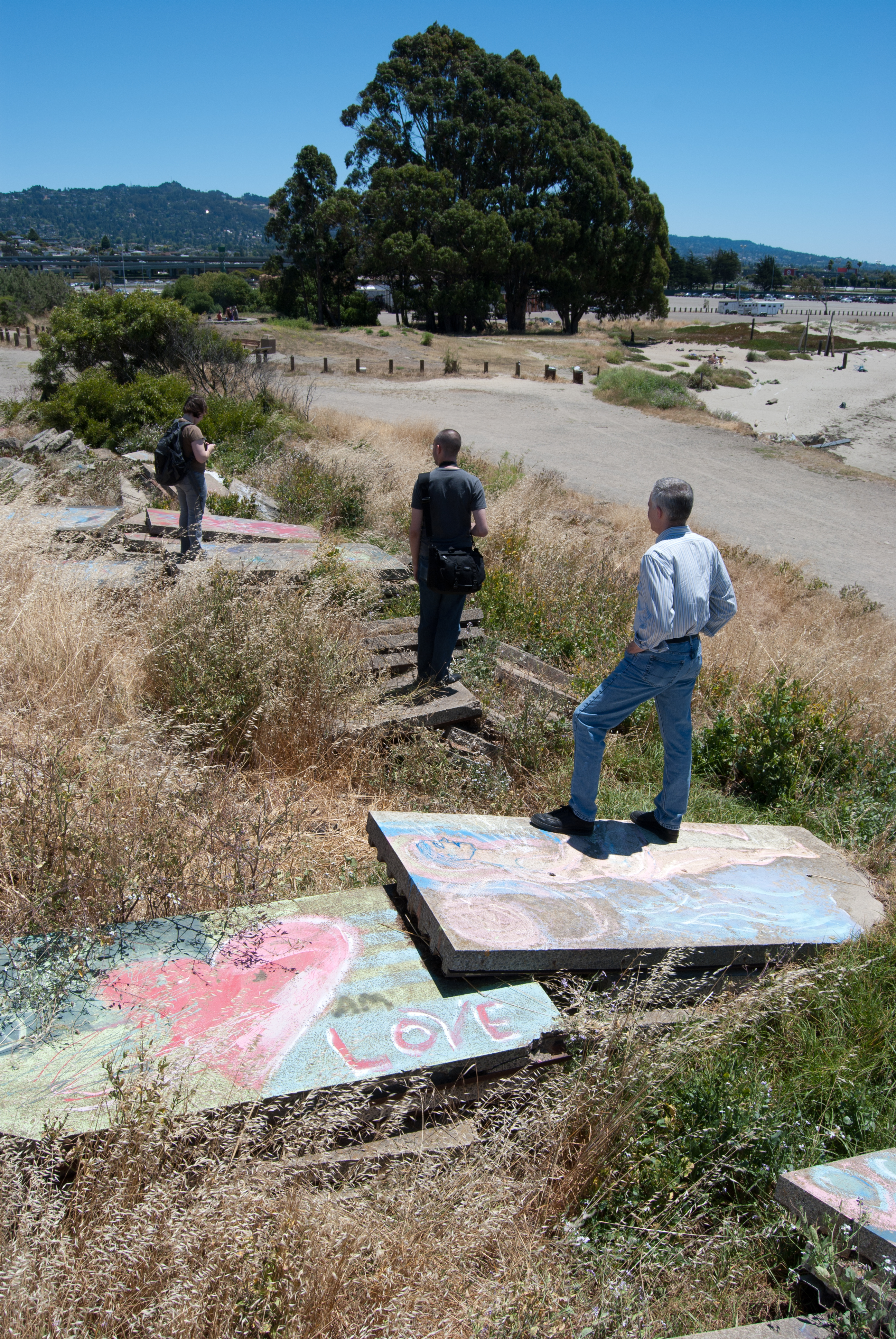 Hikers walk on concrete slabs next to the trail, looking back towards the beach.